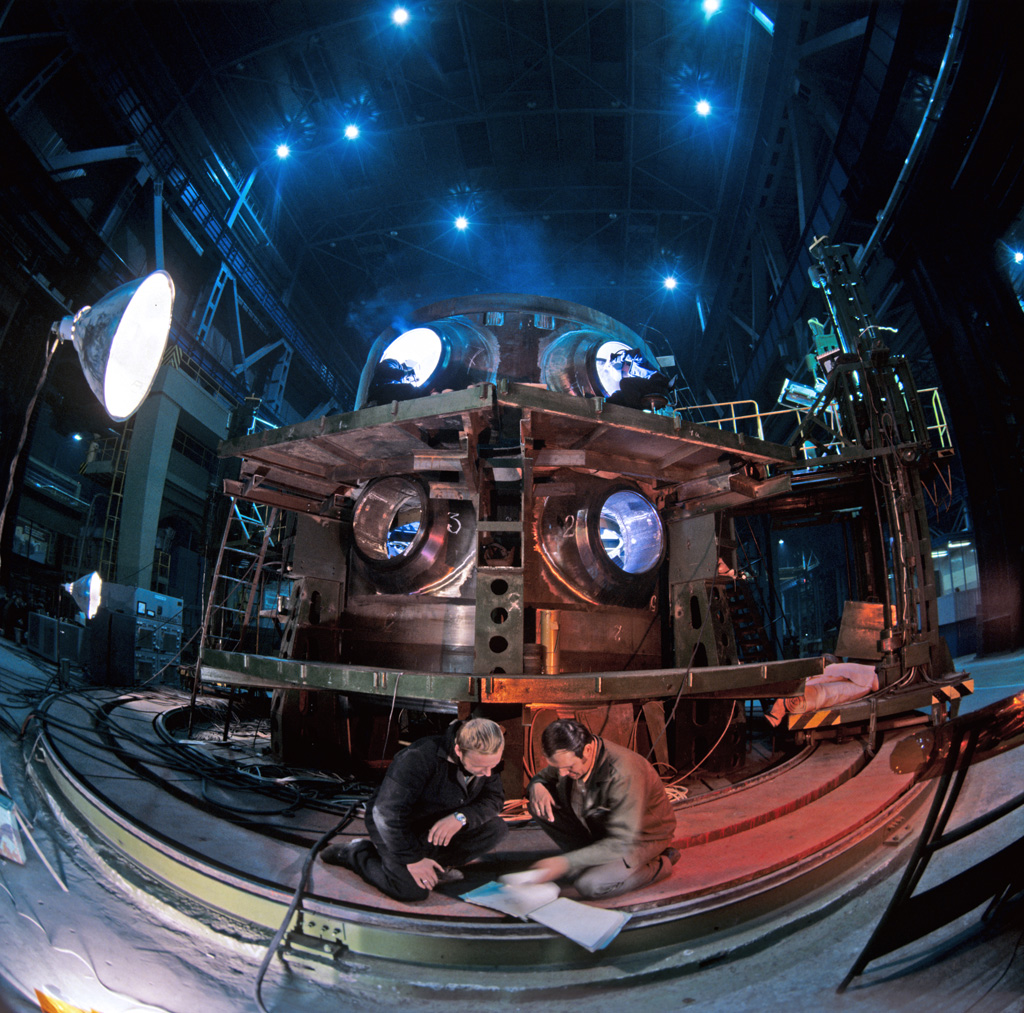 “Treatment of reactor tank”. Atommash Volga-Don Association of Enterprises for Nuclear Power Engineering and Industry. Treatment of a reactor tank.